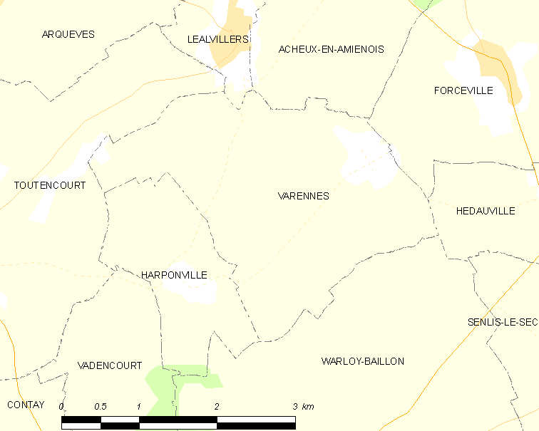 Map of French municipality Varennes